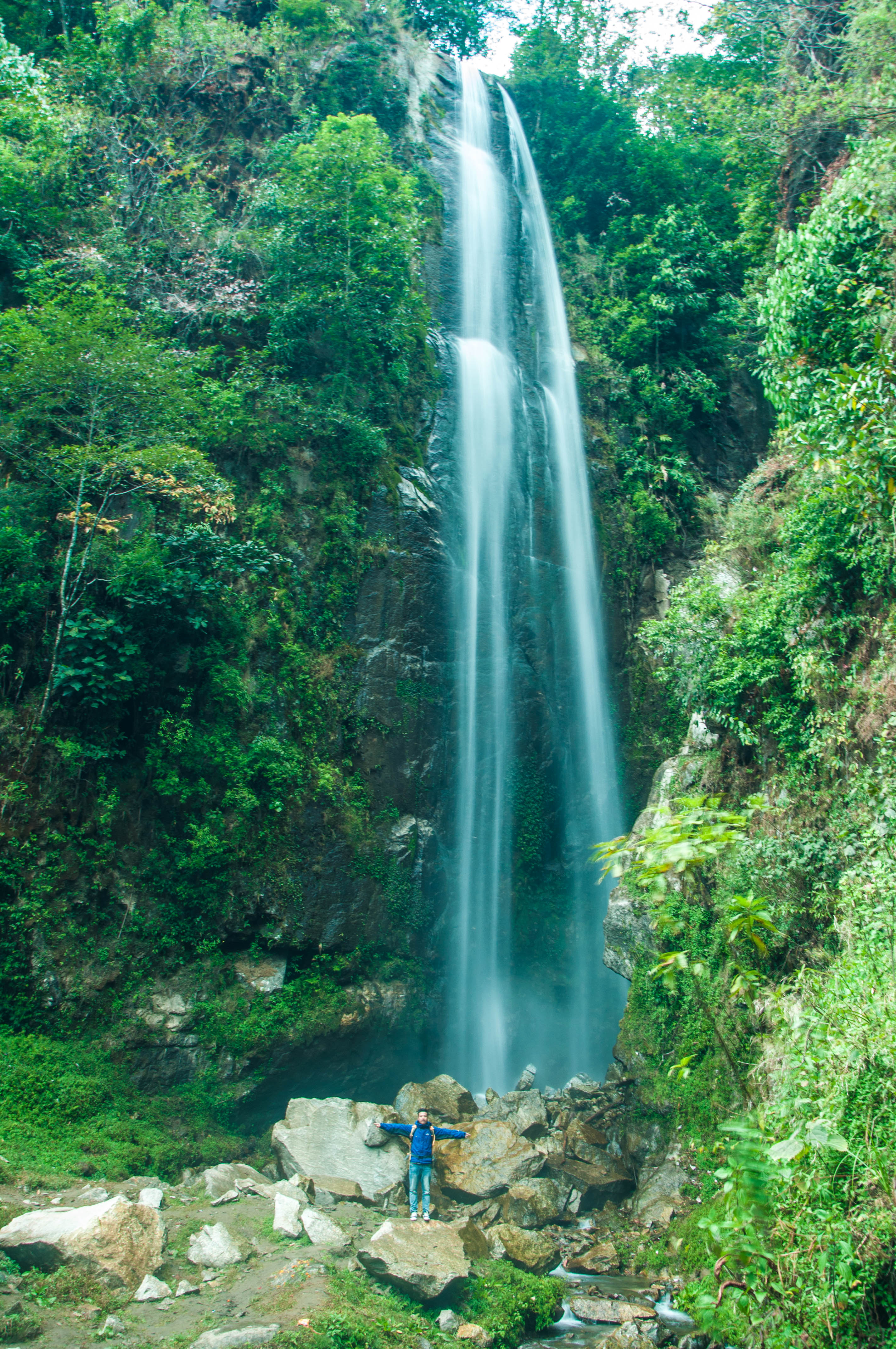 Todke falls at ilam nepal